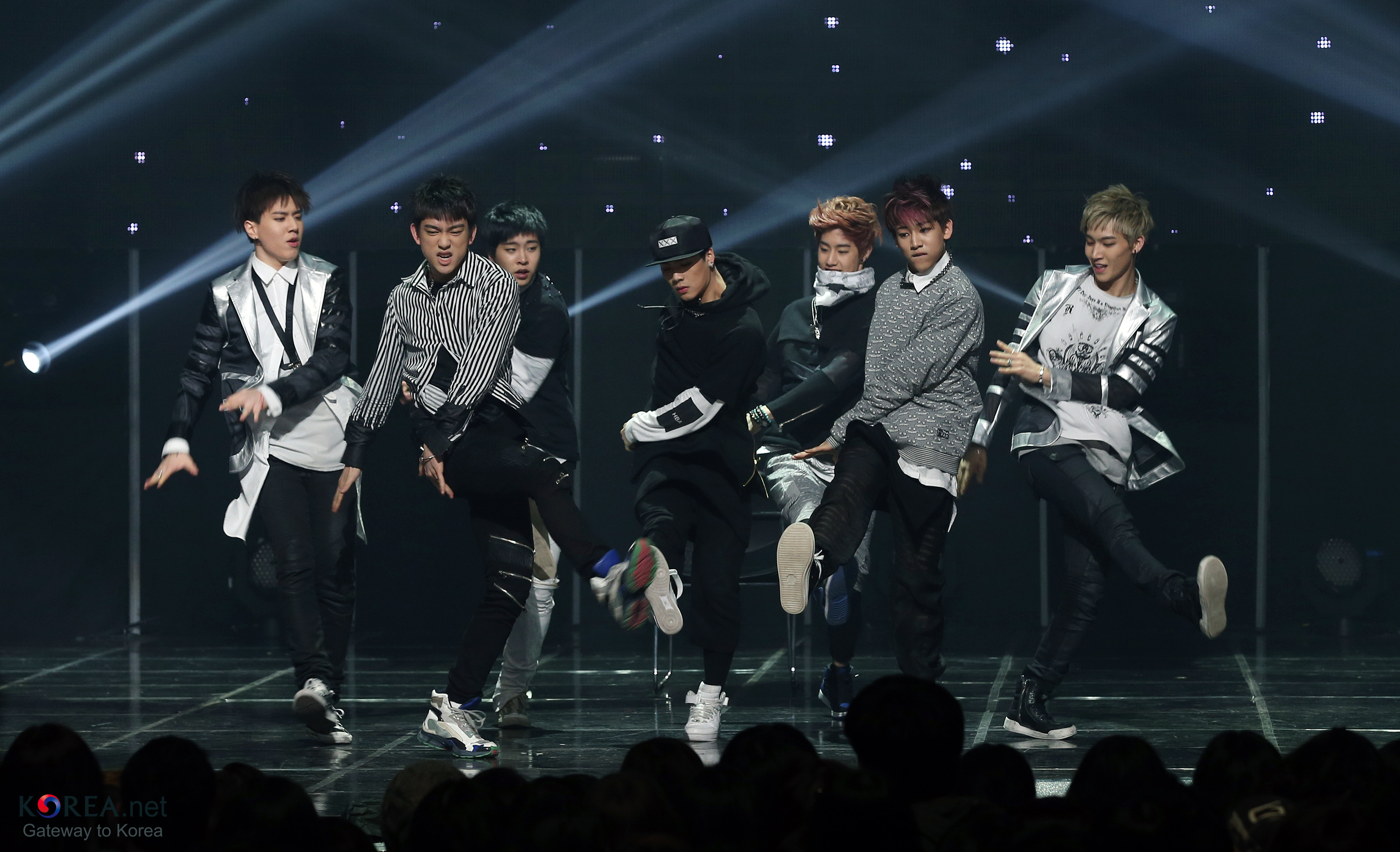 Mcountdown GOT7 JB, Jr. Mark, Jackson, Youngjae, BamBam(Kunpimook Bhuwakul), Yugyeom CJ E&M Center, Sangam-dong, Mapo-gu, Seoul 2014.03.06. Ministry of Culture, Sports and Tourism Korean Culture and Information Service ( Jeon Han 엠카운트다운 생방송 갓세븐 ‘난 니가 좋아’ JB, 마크, Jr. 잭슨, 영재, 뱀뱀, 유겸 2014-03-06 CJ E&M 센터 문화체육관광부 해외문화홍보원 코리아넷 전한